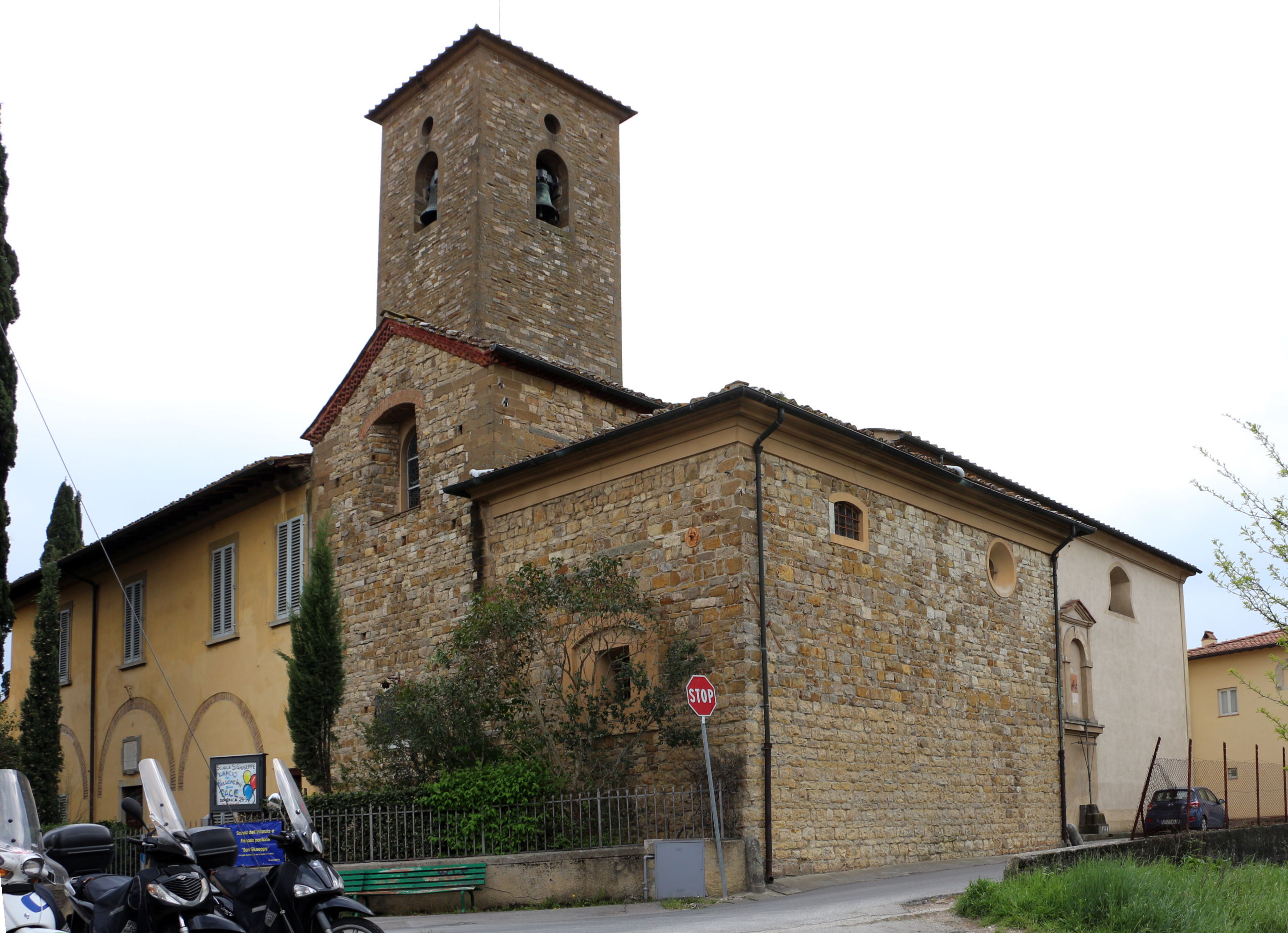 Pozzolatico